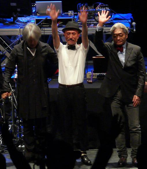 Members of the Yellow Magic Orchestra after a 2008 concert in London England.